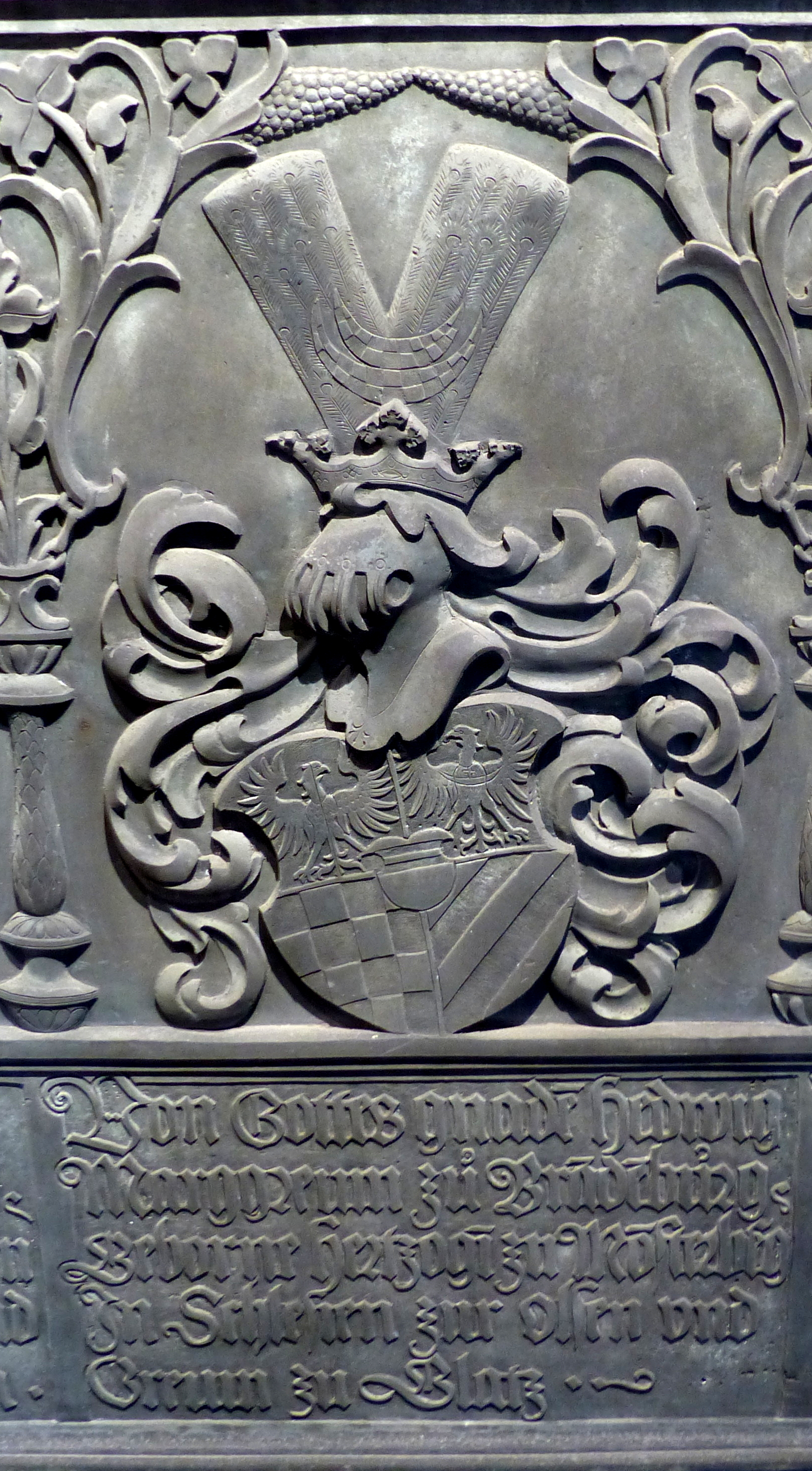 Roth ( Middle Franconia ). Ratibor castle: Bronze plaque ( 1535 ) in memory of the foundation of the castle by Hans Vischer workshop, showing the coats of arms of margrave George the Pious and his three subsequent wives - Coats of arms of Hedwig von Muensterberg-Oels, second wife of George the PiousThis is a photograph of an architectural monument.